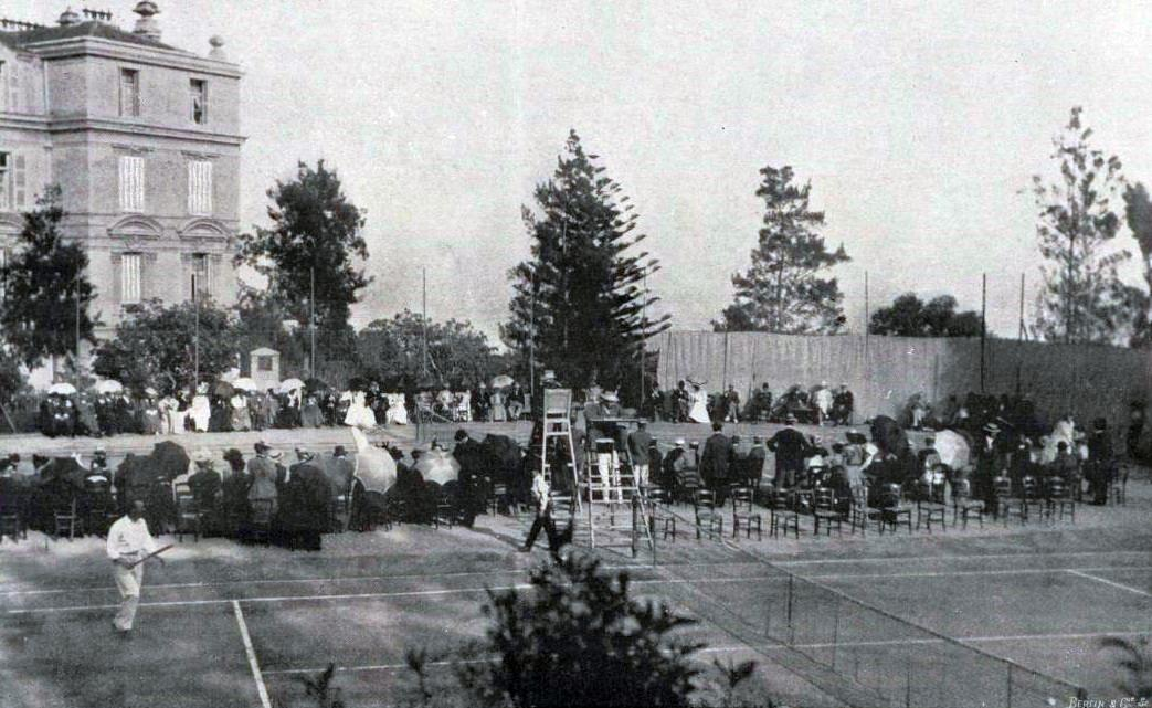 First edition of tournament in April 1897. Monte-Carlo Masters between 1897–1904 was held on courts built on the cellars of the Hôtel de Paris.